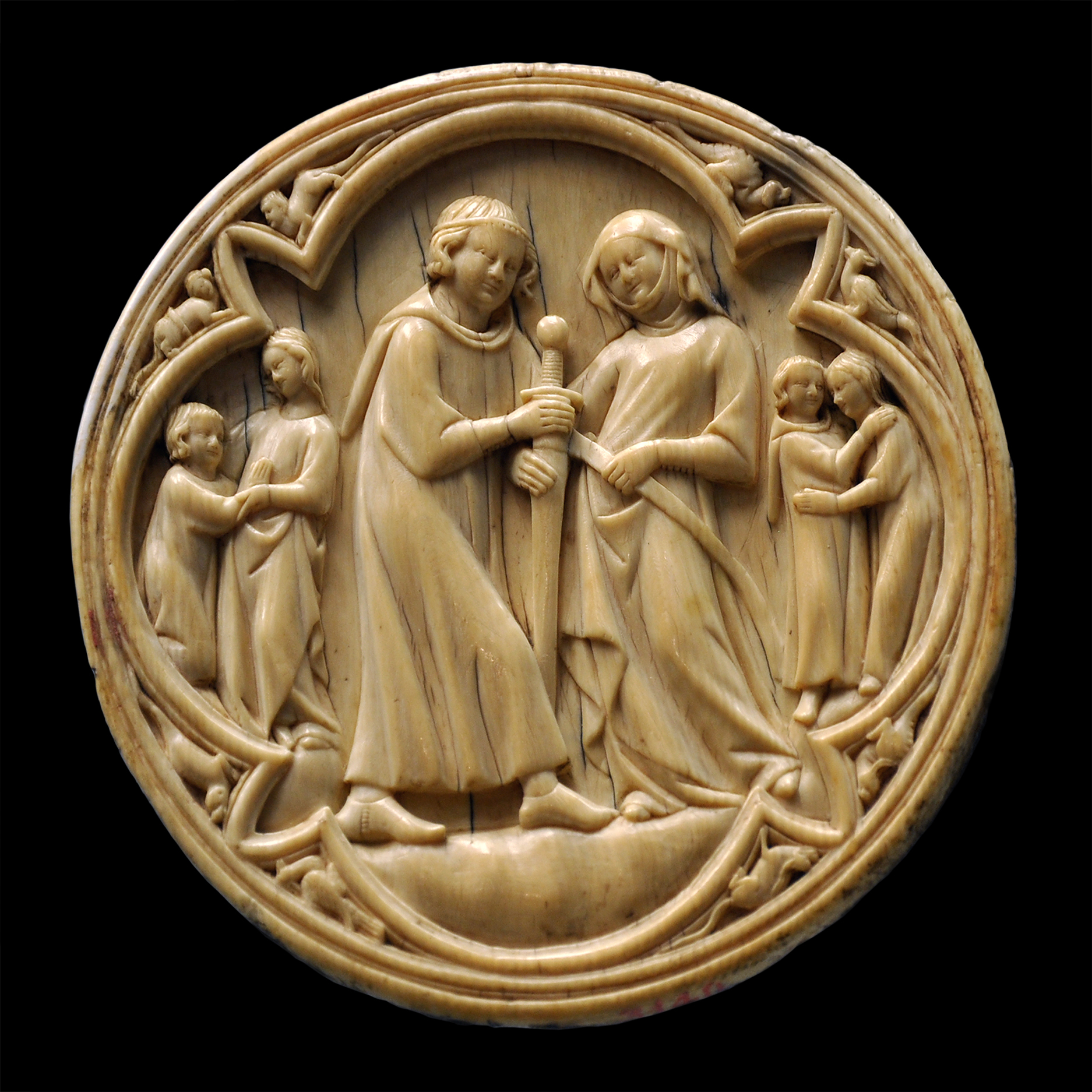 Cover of a mirror box, ivory, end of the 13th century, Paris. A lady gives a sword to a knight. MRAH, Jubilee Park, Brussels.